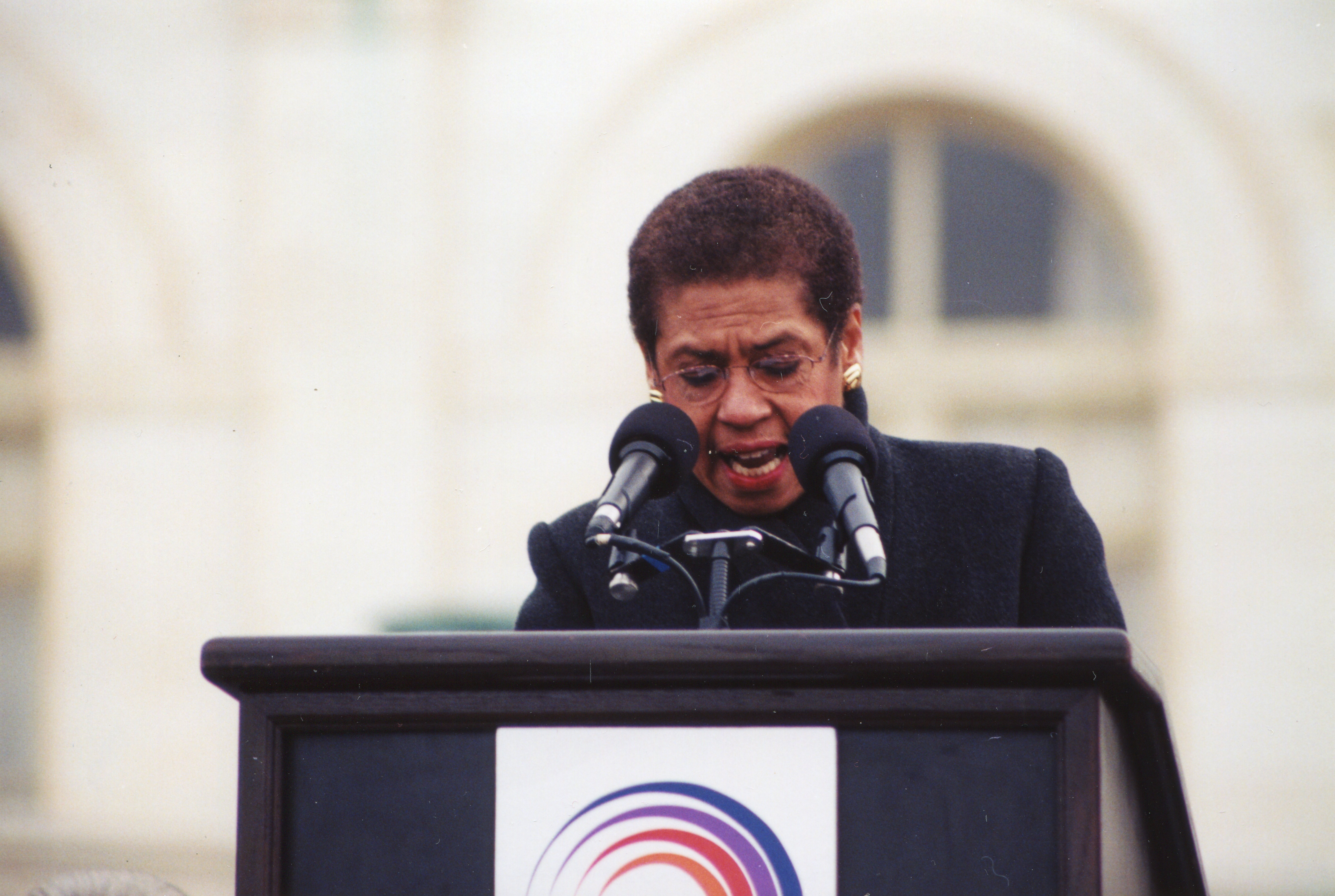 Rainbow Push Coalition ANTI-IMPEACHMENT RALLY in support of President Bill Clinton at the US Capitol West Lawn in Washington DC on Friday afternoon, 17 December 1998 by Elvert Barnes Protest Photography Congresswoman Eleanor Holmes Norton (D-DC) Watch Rally on C-SPAN at Elvert Barnes PROTEST PHOTOGRAPHY at